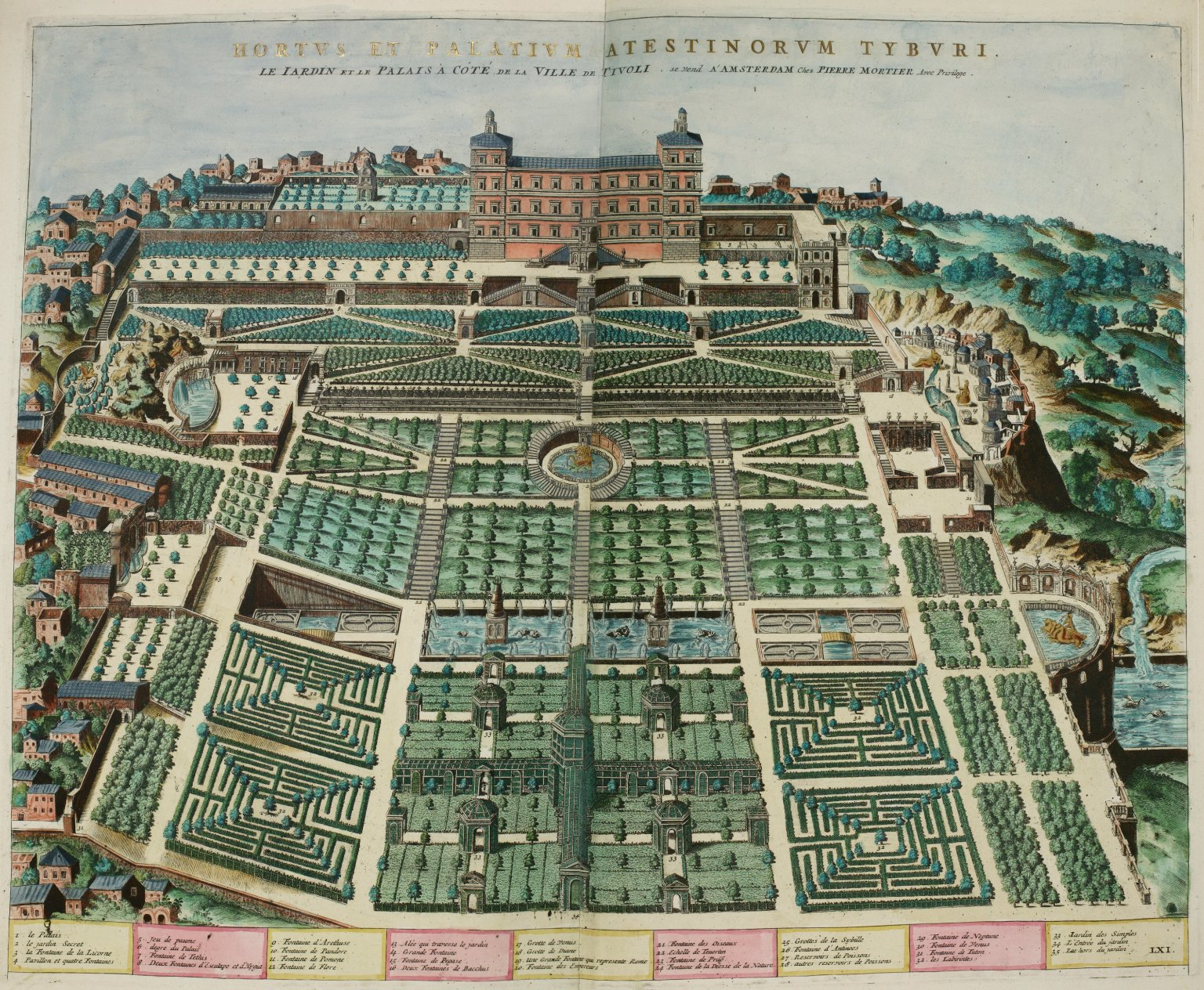 Bird's-eye plan view of the gardens at Villa d'Este (Tivoli), Italy.